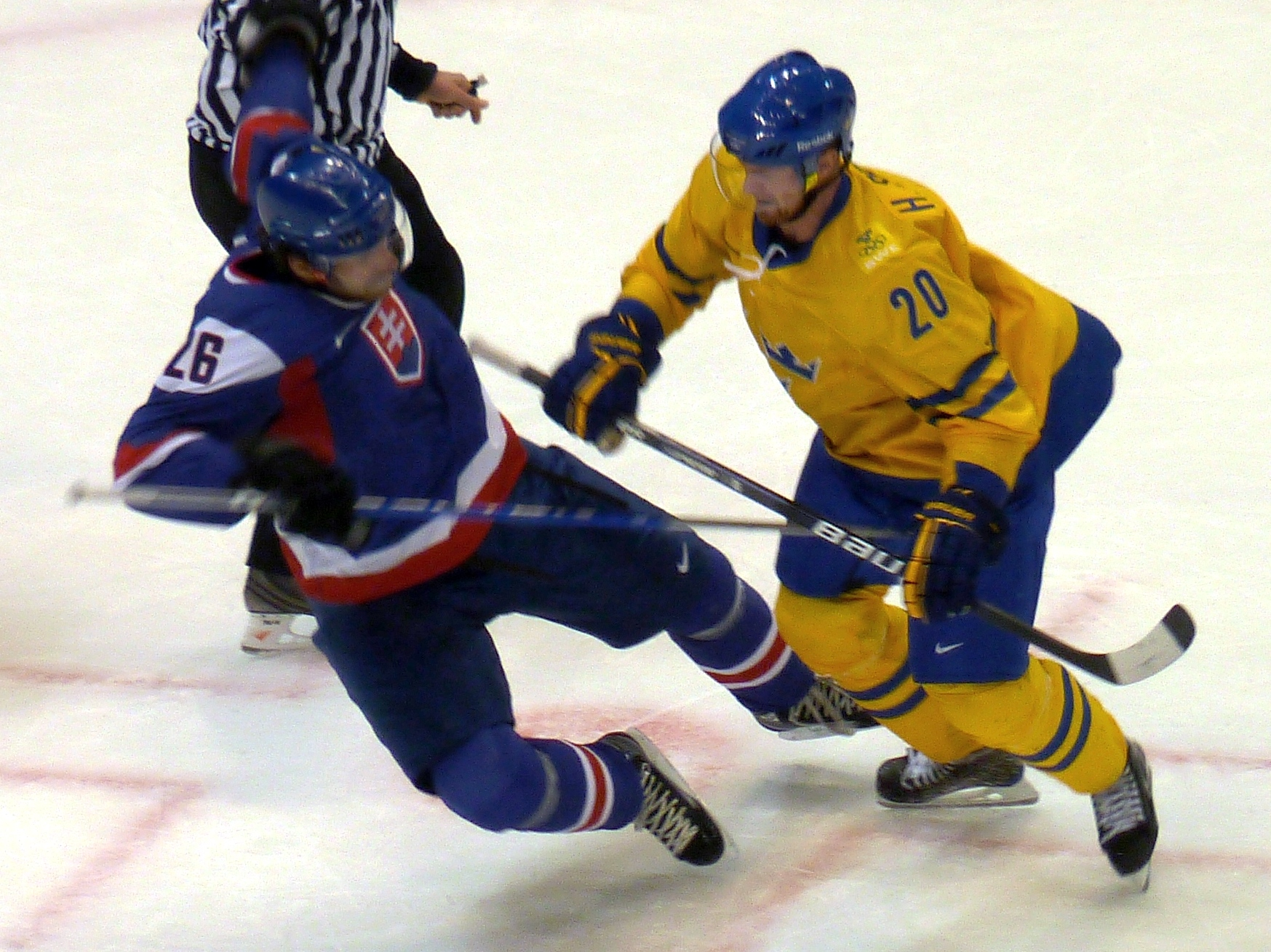 Swedish centre Henrik Sedin knocks down Slovak centre Michal Handzuš during the 2010 Winter Olympics.